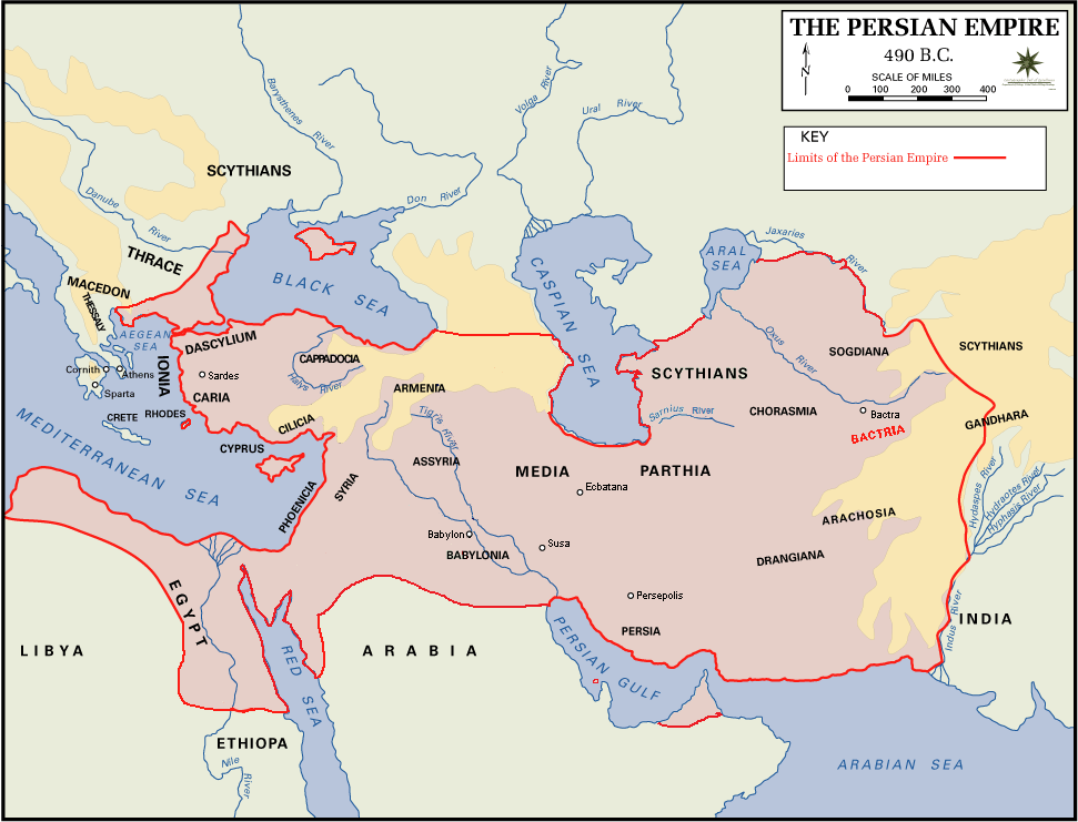 The Persian Empire in 490 BC. A public domain image created by the Department of History, United States Military Academy, West Point. Based on Image:Persian empire 490bc Bactria.gif. Converted to PNG.